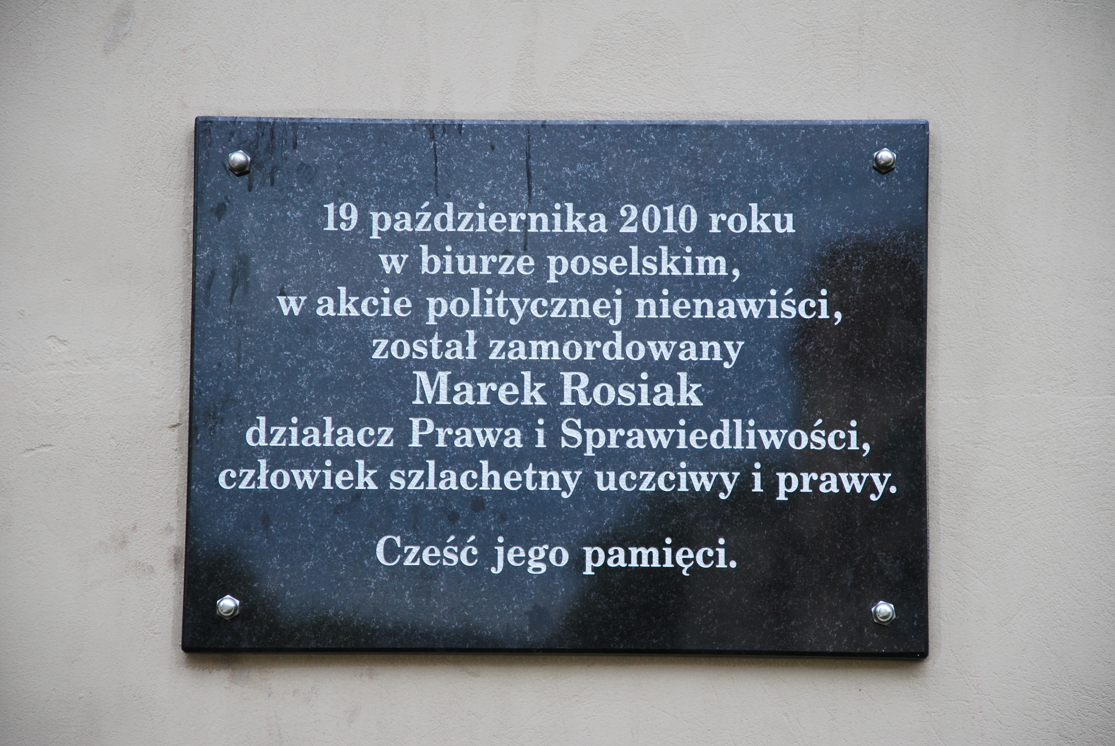 Plaque to Marek Rosiak, killed politician of Łódź, Łódź Schillera Passage.